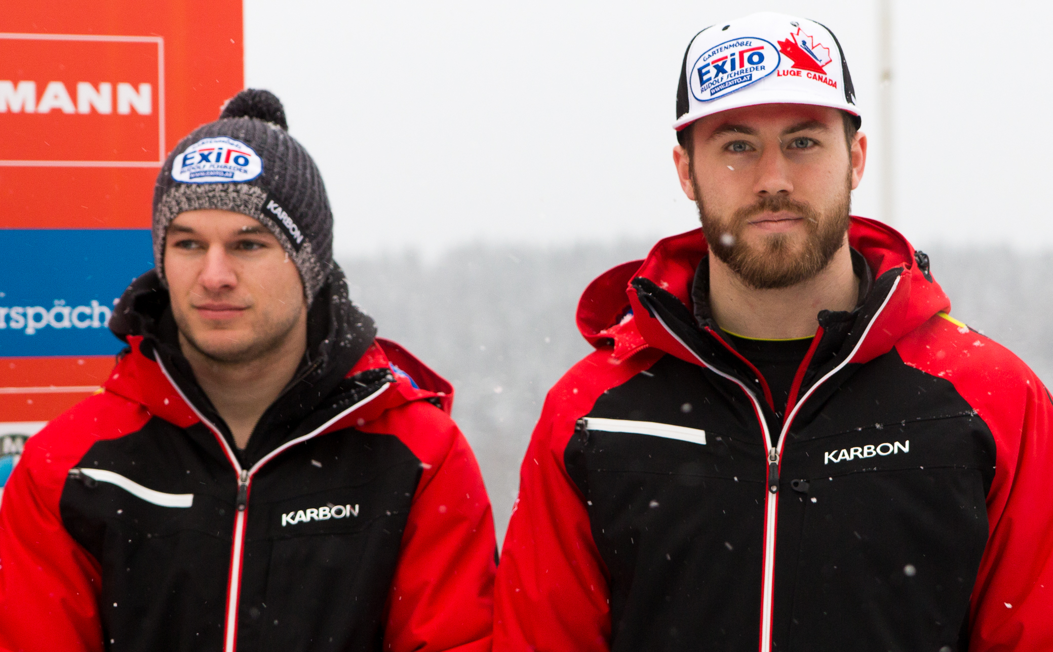 Luge world cup Oberhof 2016-01-17